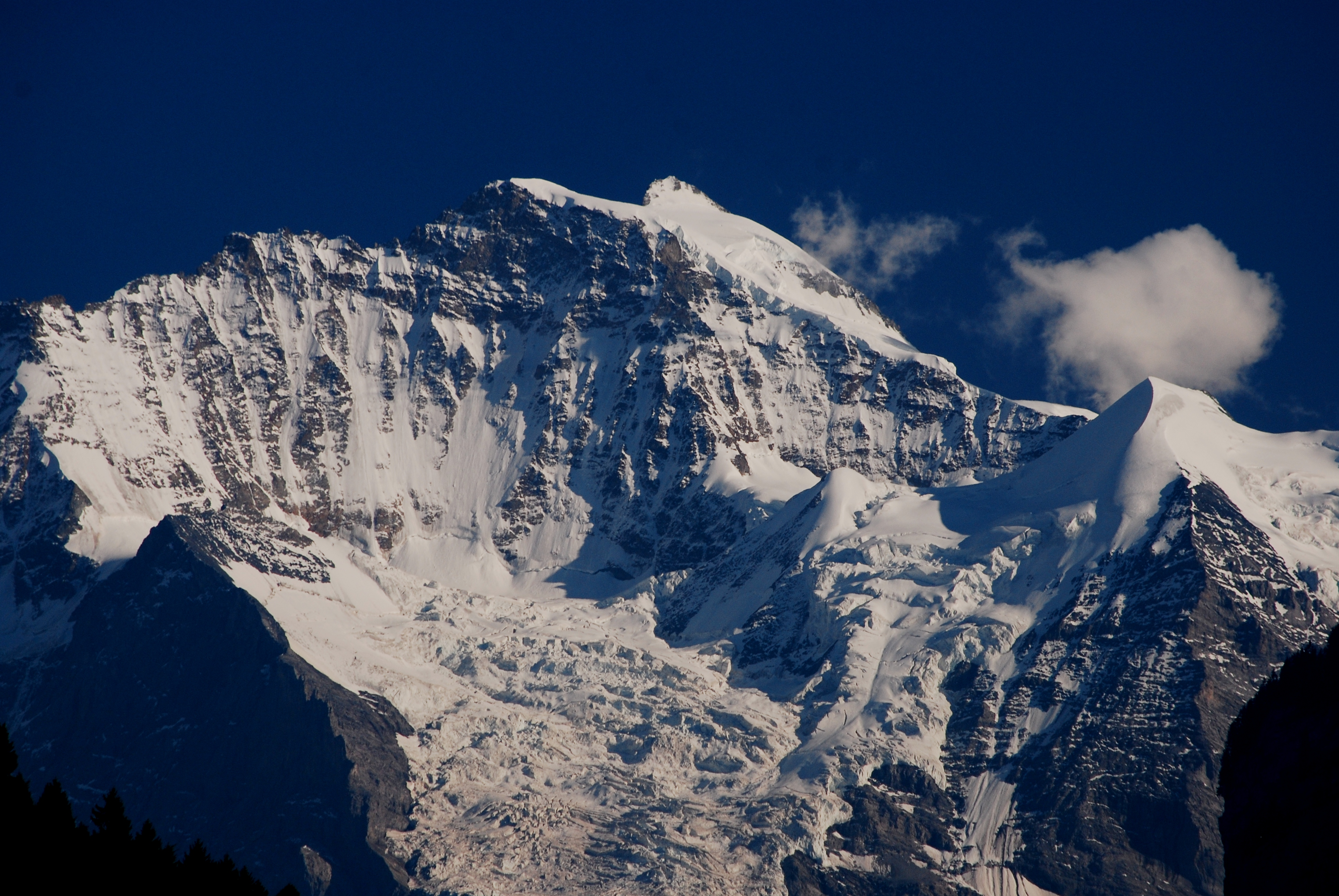 Jungfrau seen from near Interlaken